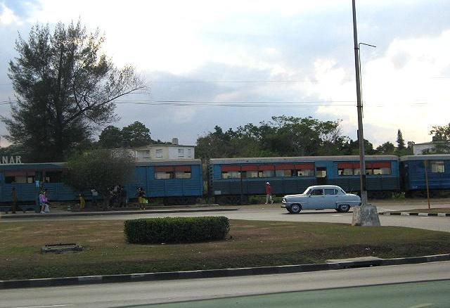 A suburban train of Havana at the stop of "Habana Fontanar" (part of the stone-made signboard is shown), not too far from "José Martí Airport".